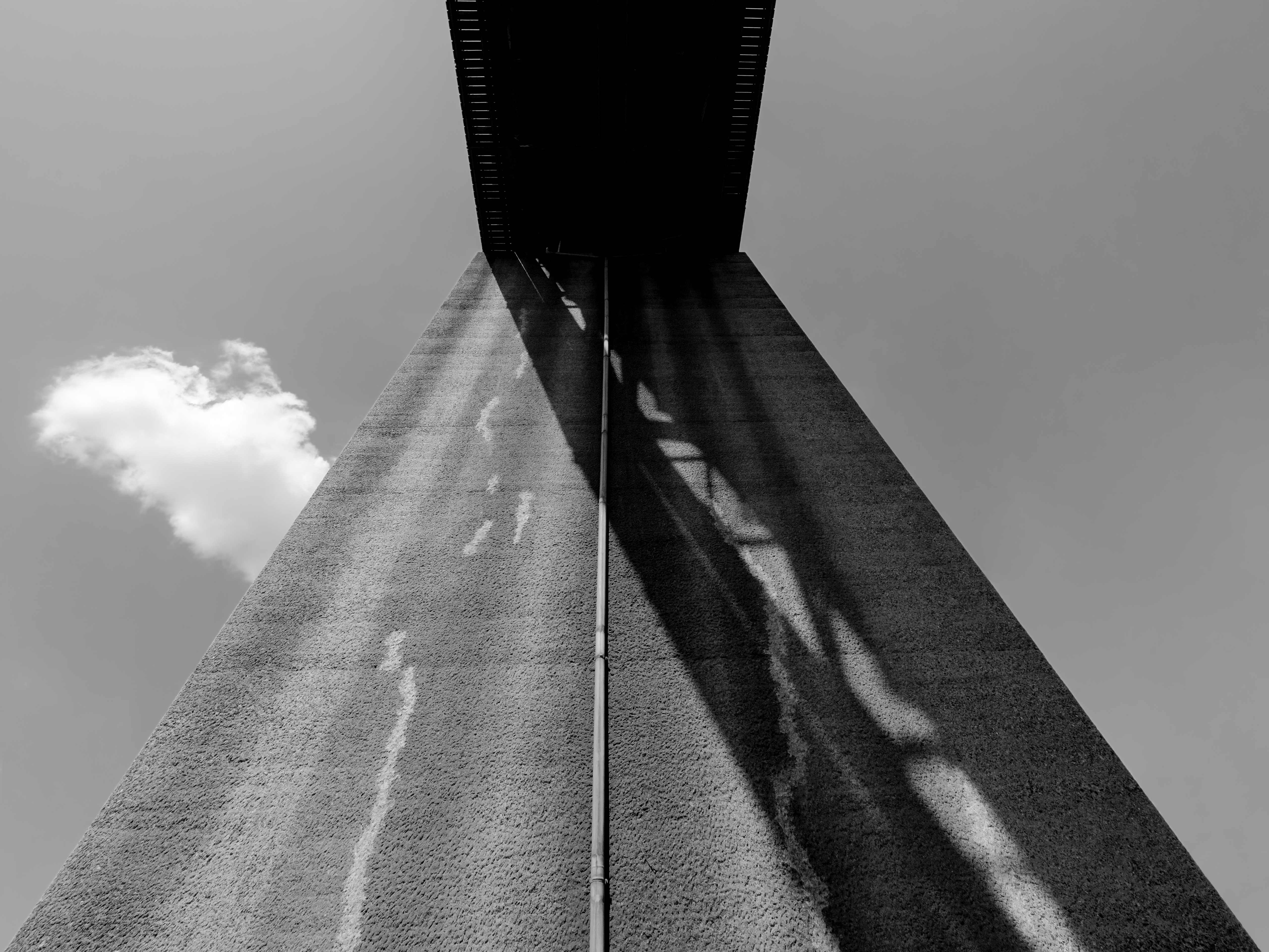 Trogenbach Bridge in Ludwigstadt in Upper Franconia